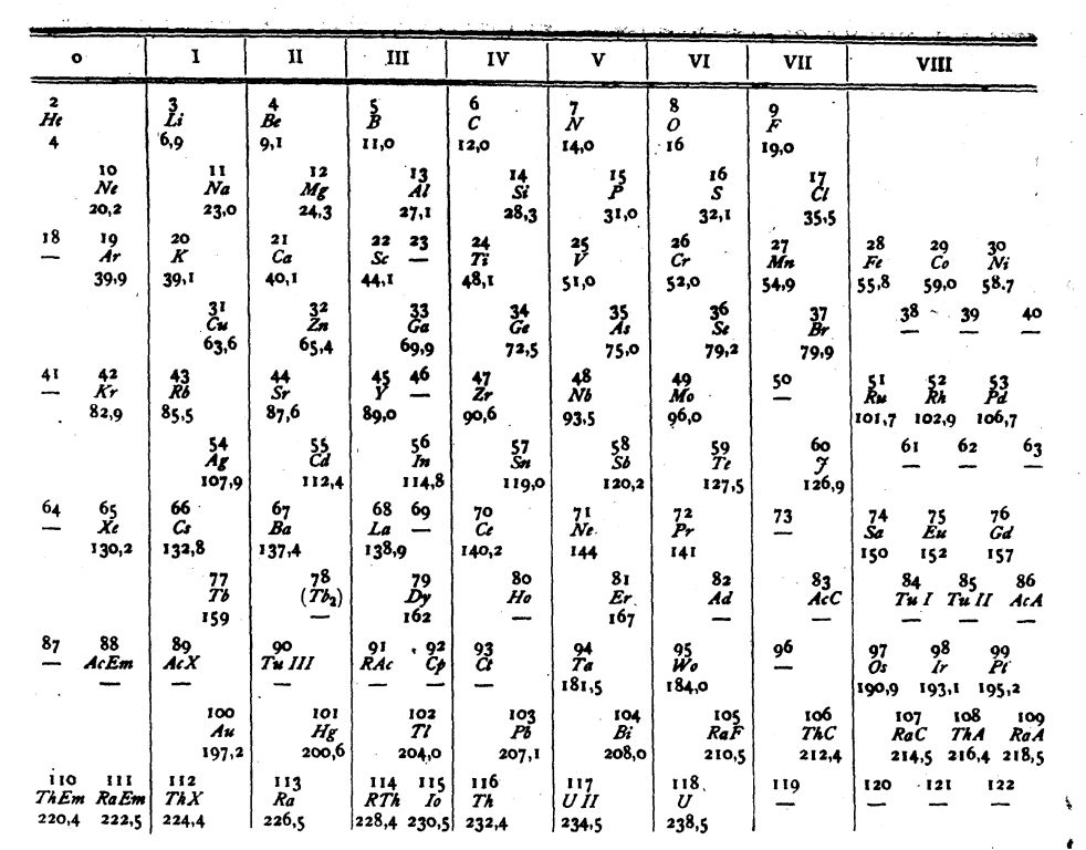 The "extended" periodic table created by Dutch amateur physicist Antonius van den Broek in 1913.